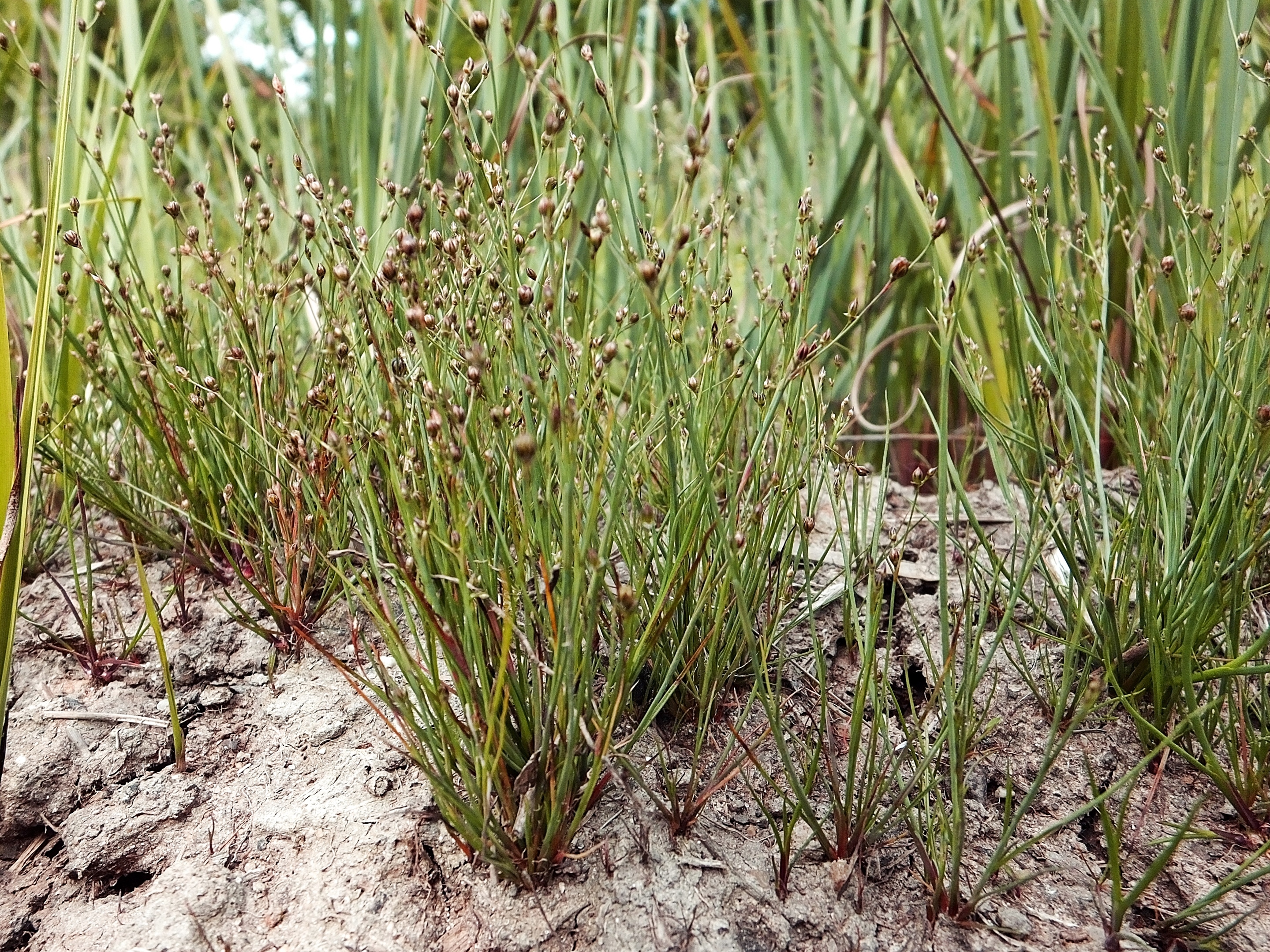 Juncus tenageias